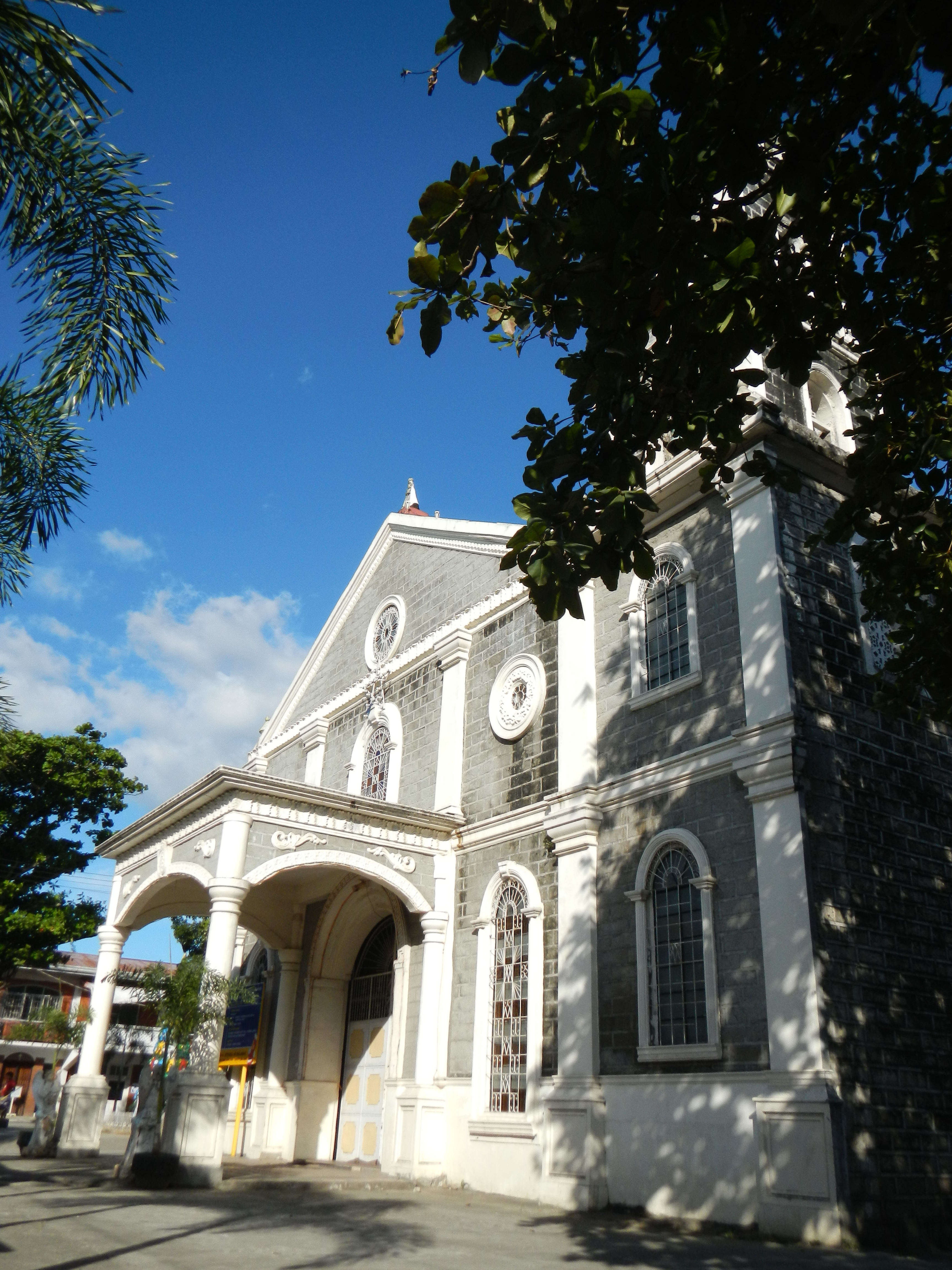 1941 Our Lady of the Most Holy Rosary Parish Church, Makinabang, Baliuag, Bulacan, Vicariate of St. Augustine of Hippo – Roman Catholic Diocese of Malolos, (Dioecesis Malolosina) Suffragan of Manila, Parish Priest is Judicial Vicar: Fr. Winniefred F. Naboya, JCL replacing retired and ailing Parish Administrator, Msgr. Macario R. Manahan, Parish Priest, Vicar Forane is Msgr. Filemon M. Capiral, HP, Tel.: (044) 766-1393, Feast is October 7 [1][2] Coordinates: 14°55'7"N 120°53'10"E Nearby cities: San Fernando City, Pampanga, Balanga City, Mabalacat City, Pampanga[3]